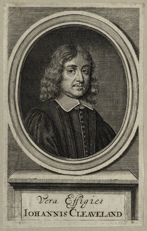 John Cleveland a poet who supported the Royalist cause during the English Civil War. "[A] portrait, accounted genuine, is engraved in Nichols's 'Select Collection of Miscellaneous Poems,' vol. vii. 1781, from an original painting by Fuller, in possession of Bishop Percy of Dromore" (Ebsworth, Joseph Woodfall (1887). "Cleveland, John". Dictionary of National Biography. 11. p. 53).